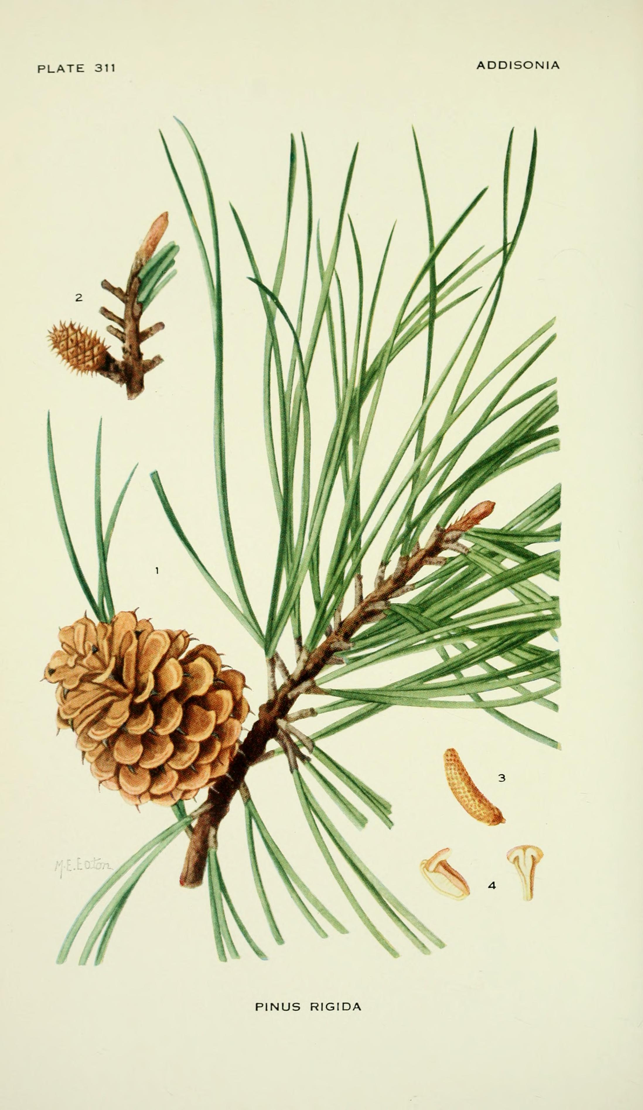 Title: Addisonia : colored illustrations and popular descriptions of plants Year: 1916-(1964) (1910s) Authors: New York Botanical Garden Subjects: Plants; Plants -- United States; Plants Publisher: New York : New York Botanical Garden Text Appearing Before Image: PLATE 311 ADDISONIA Text Appearing After Image: PINUS RIGIDA